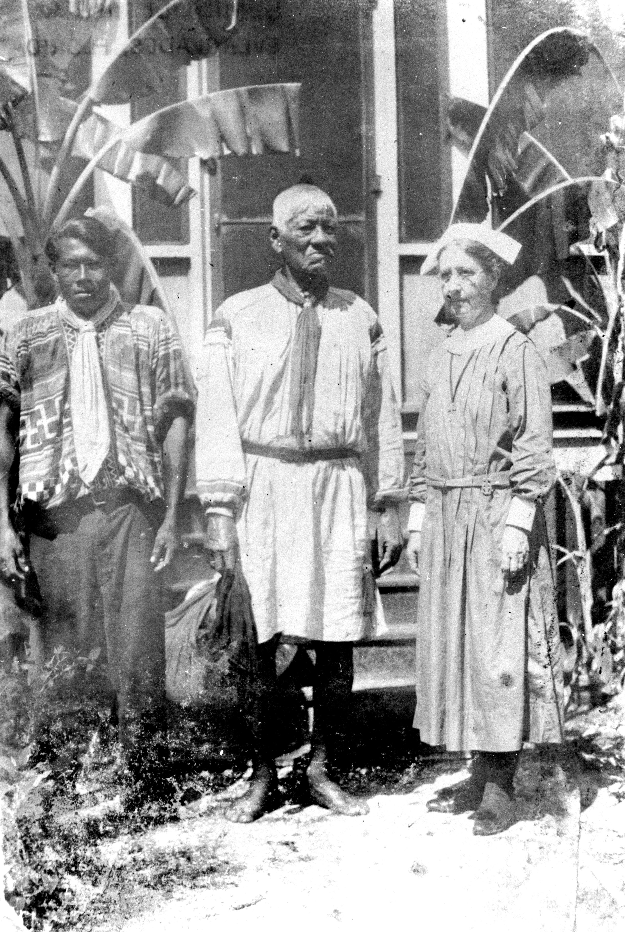 Local call number: BD004 Title: [Deaconess Bedell with medicine man and Bobby Jim Tiger outside the mission] Date/ place captured: Between 1933 and 1960, Glade Cross Mission, Everglades City, Florida. Physical descrip: 1 photograph : b&w ; 5 x 7 in. Series Title: (Bedell Collection.) Repository: State Library and Archives of Florida, 500 S. Bronough St., Tallahassee, FL 32399-0250 USA. Contact: 850-245-6700. Persistent URL